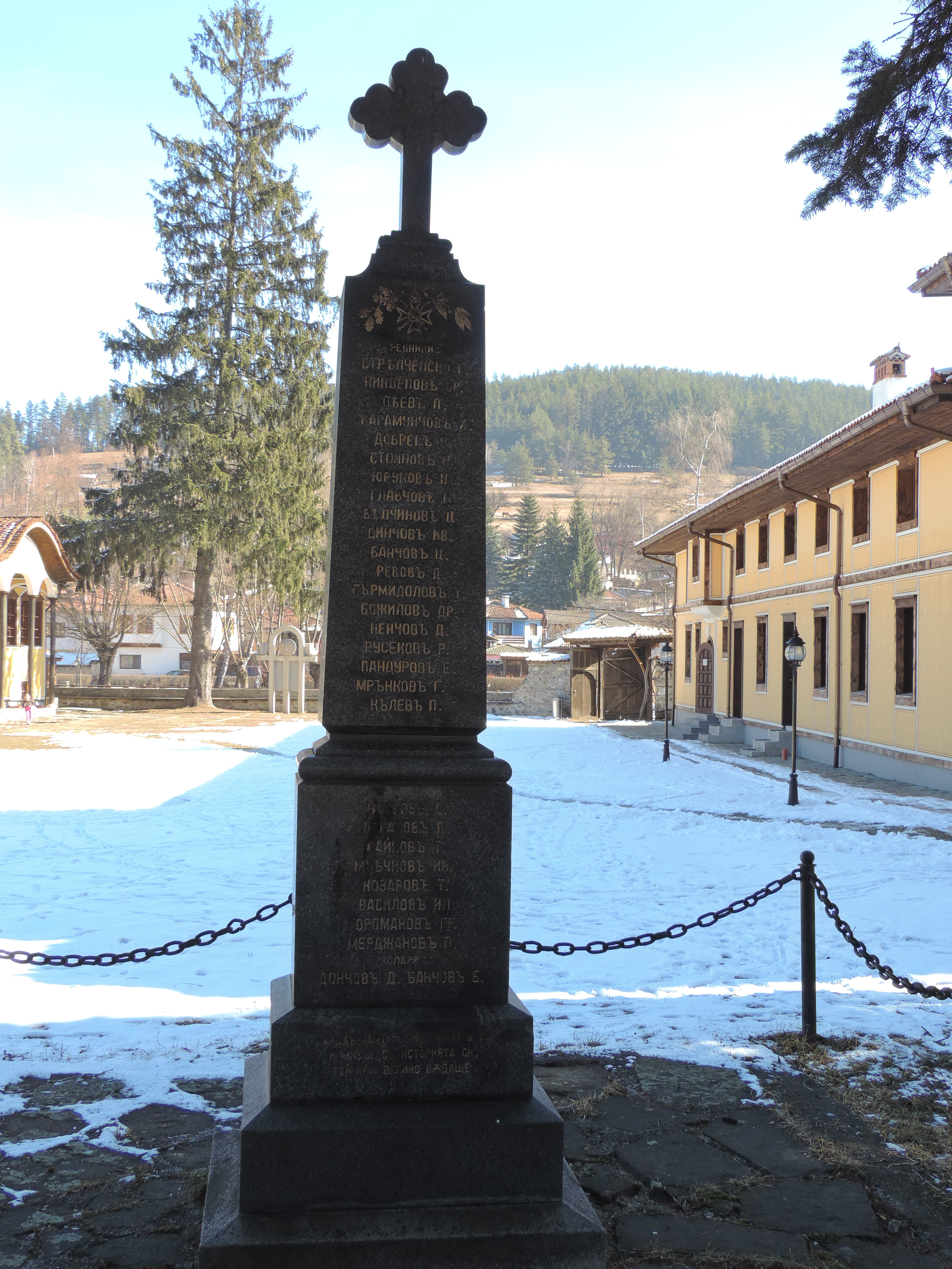 Koprivshtitsa, Bulgaria